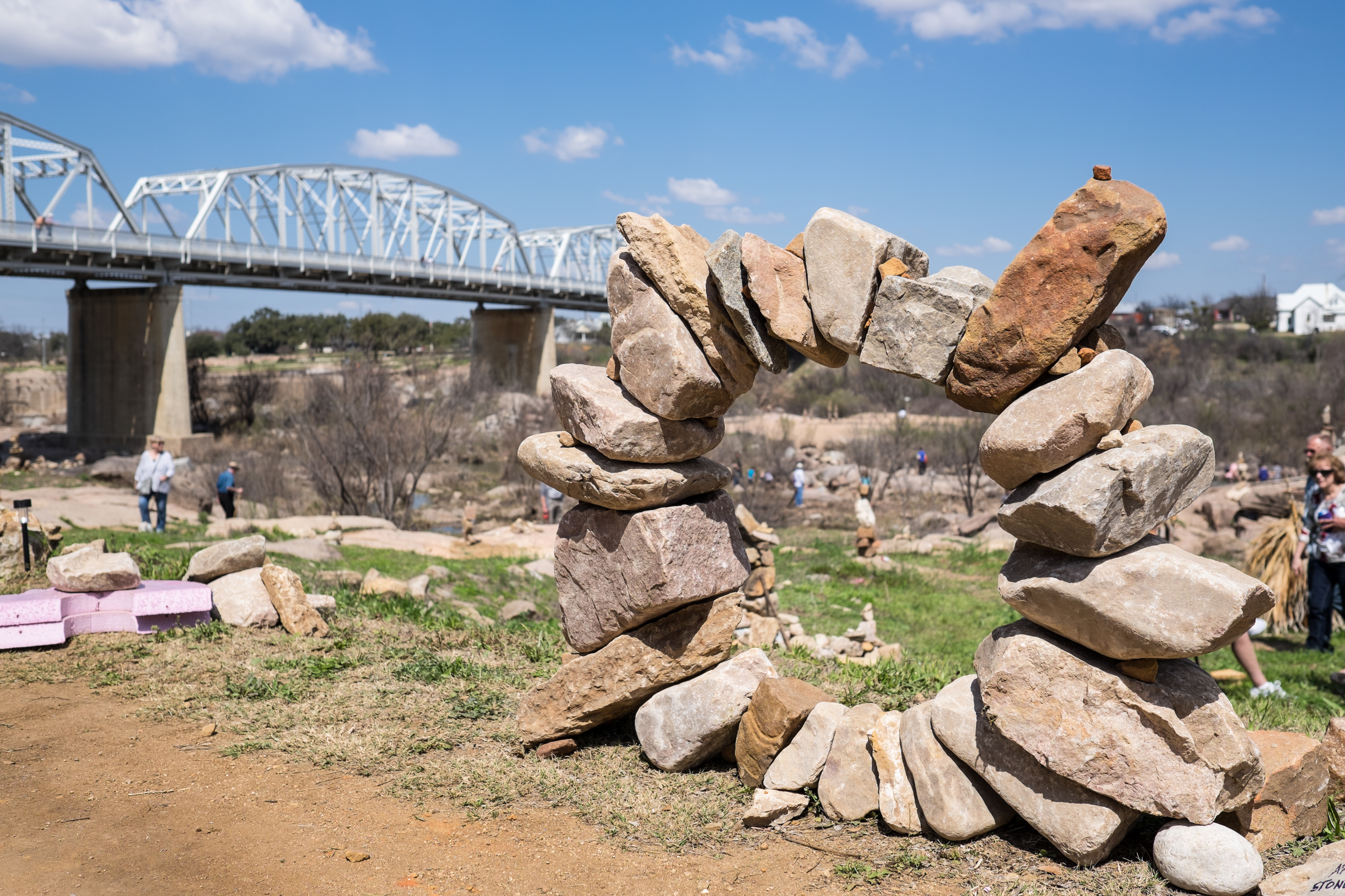 Rock Stacking Championship-5714.jpg